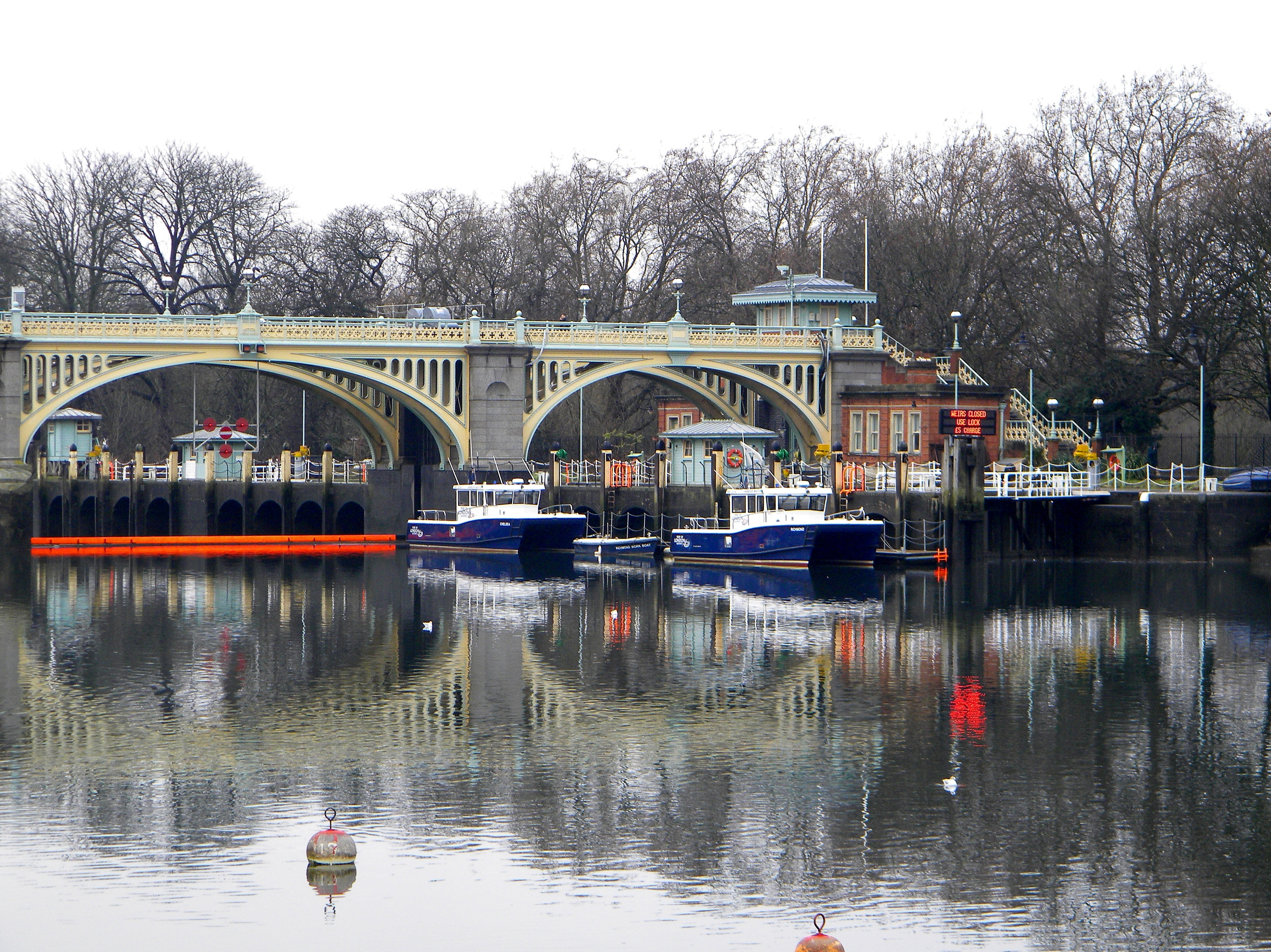 With P.L.A.(Port of London Authority) patrol boats on landing station.